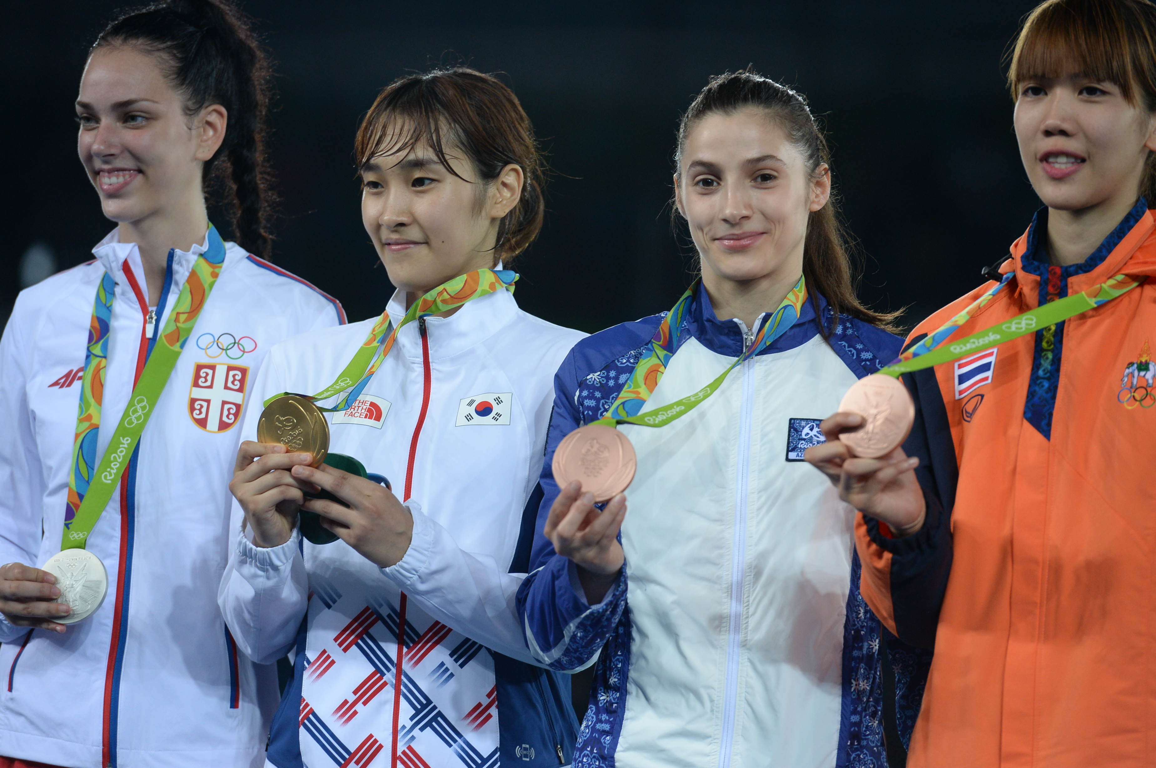 Taekwondo at the 2016 Summer Olympics – Women's 49 kg awarding ceremony